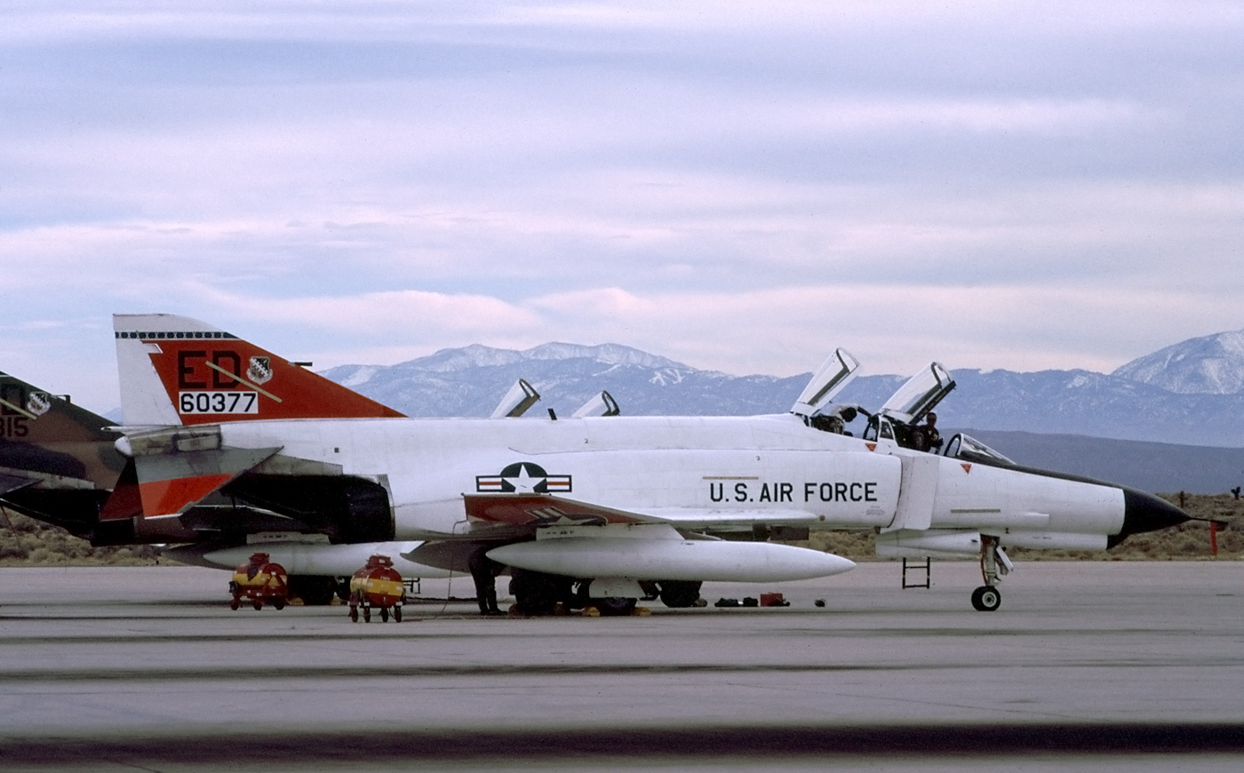 Phantom of the Test Pilot School at Edwards AFB (January 1987).